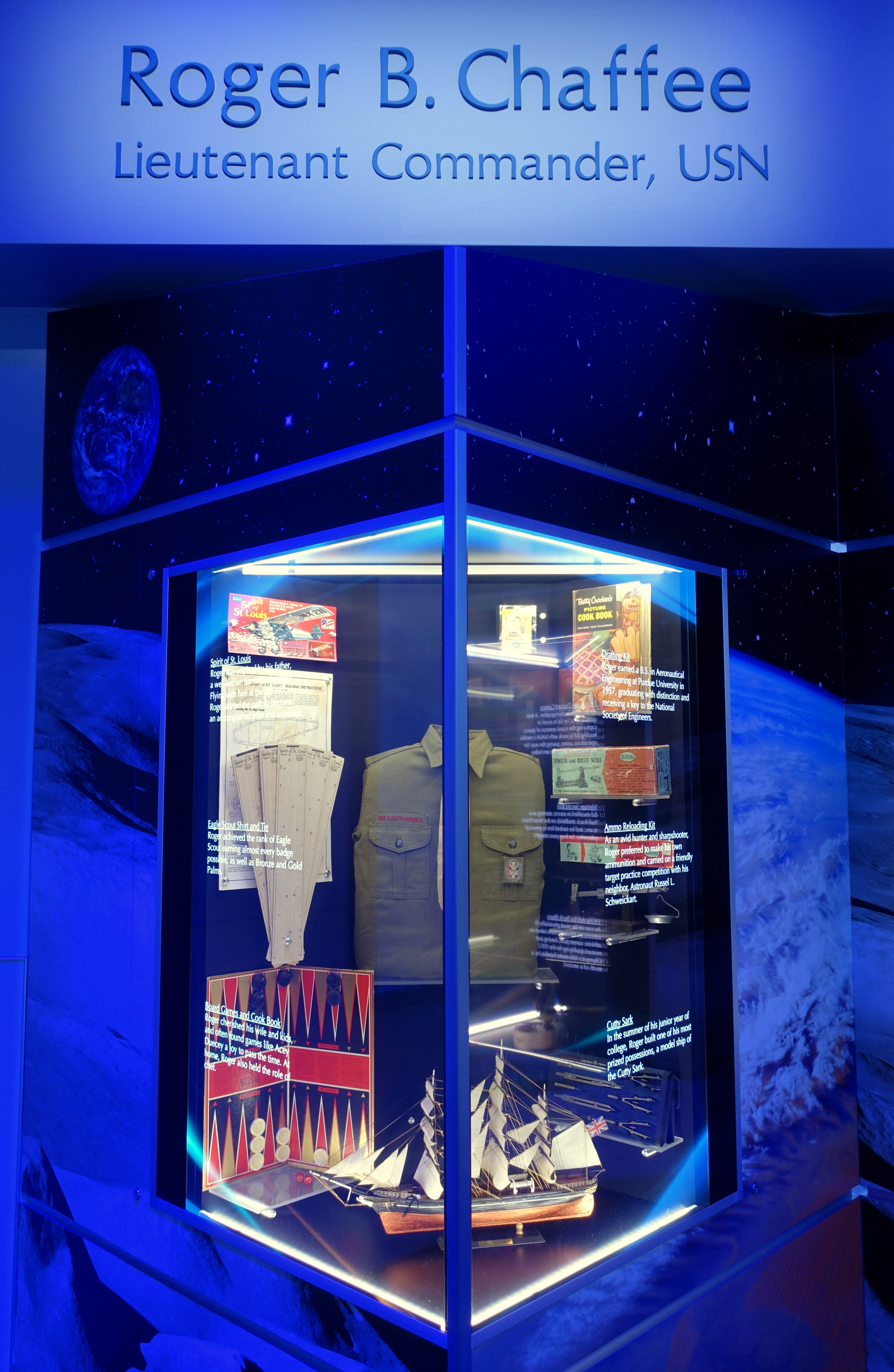 Exhibit at the Kennedy Space Center - Cape Canaveral, Florida, USA.